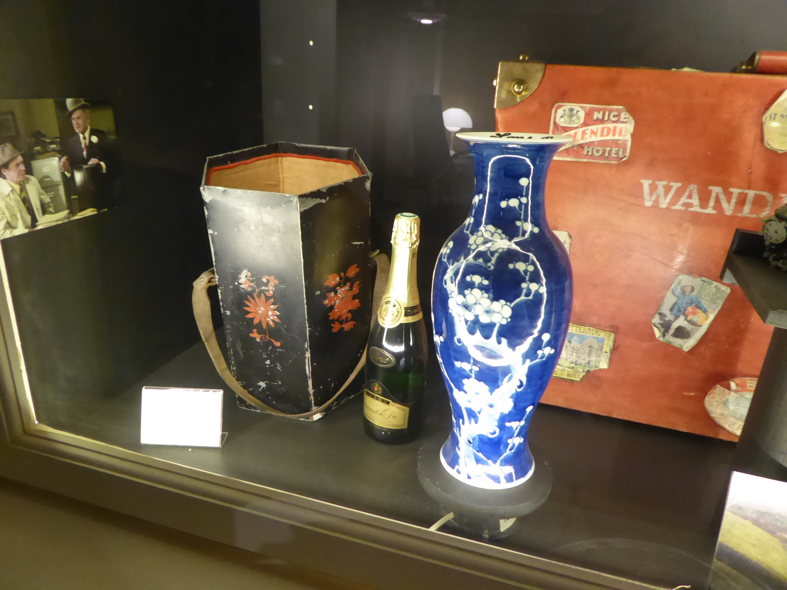 Champagne bottle and Chinese vase from the Danish 1976 movie Olsen-banden ser rødt in a special Olsen-banden exhibition at Nordisk Film in Copenhagen. Olsen-banden attempts to steal the vase in the movie but also encounter fake vases.